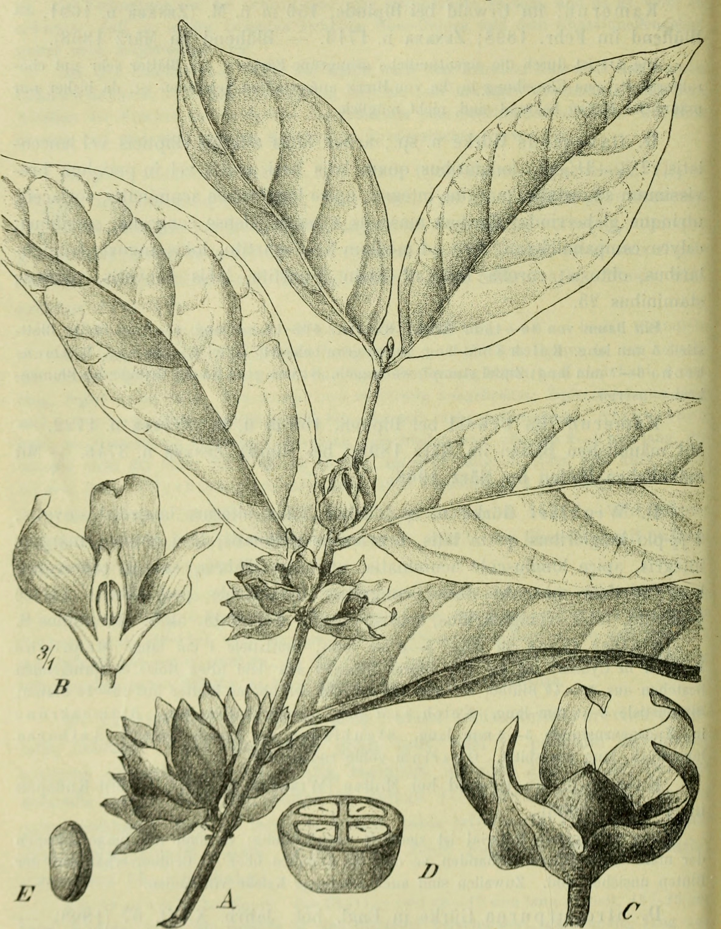 Title: Botanische Jahrbücher für Systematik, Pflanzengeschichte und Pflanzengeographie Year: 1881 (1880s) Authors: Engler, Adolf, 1844-1930 Subjects: Botany; Plantengeografie; Paleobotanie; Taxonomie; Pflanzen Publisher: Stuttgart : Schweizerbart Text Appearing Before Image: 'p. 212 Beiträge zur Flora von Afrika XXXIVerscheint die Notiz des Sammlers, dass dieser baum Ebenholz liefert. Wir kennen leider immer noch nicht die Stammpflanze des Kamerun- Text Appearing After Image: Fig. 4. Diospyros atropurpurea Gürke. A Zweig mit weiblichen Blüten; B Weibliche Blüte im Längsschnitt; C Reife Frucht; D Frucht im Querschnitt; E Same. Ebenholzes, welches bekanntlich in großen Mengen nach Europa importiert wird. Es wäre wohl denkbar, daß es von dieser Art stammt, aber andererseits ist es ziemlich wahrscheinlich, daß mehrere Diopyros-Arten das [Ebenholz liefern.]